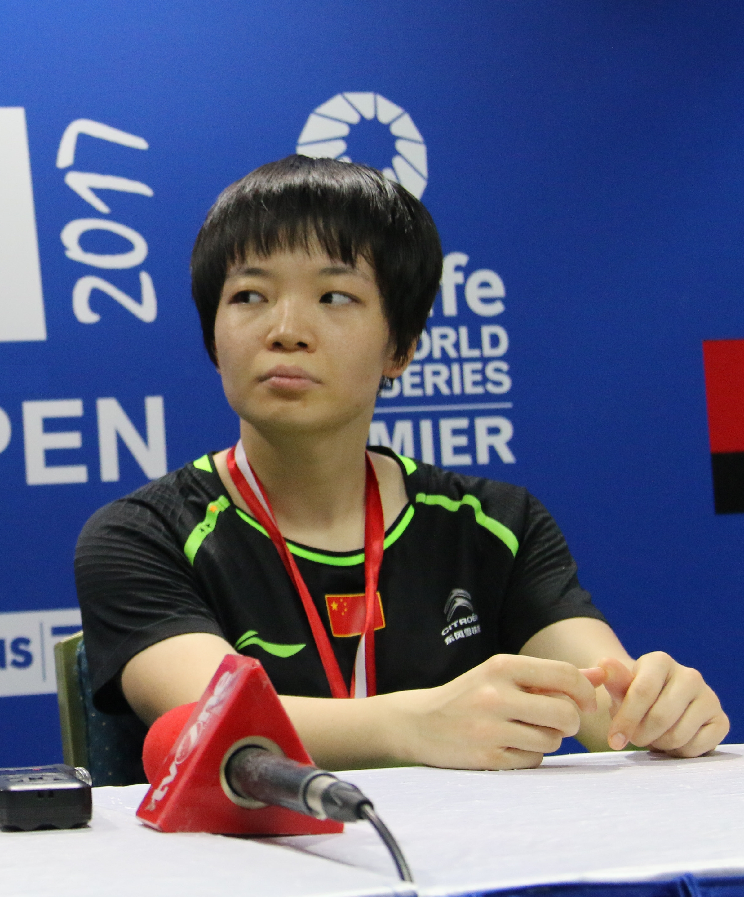 Chen Qingchen at Indonesia Open 2017 post match press conference